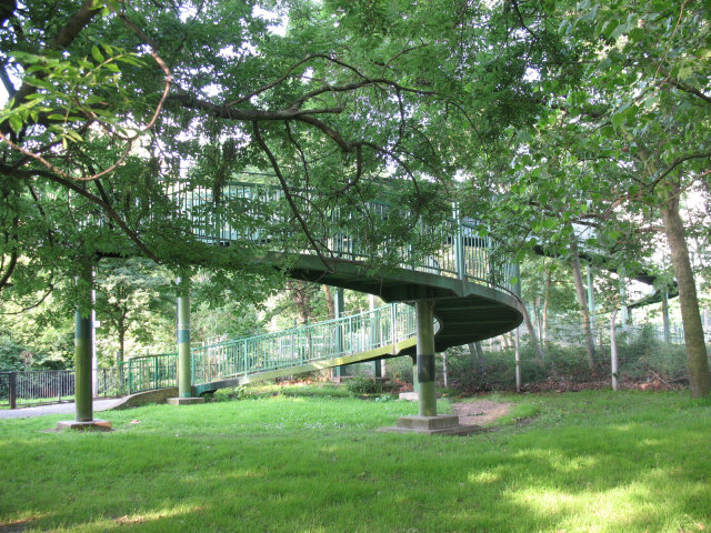 Spiral bridge in Ladywell Fields This well-designed bridge with spiral approaches takes the Waterlink Way over the Hayes railway line in Ladywell Fields park. The spiral includes both a smooth ramp for cyclists (at a gradient that can easily be ascended if approached in a low enough gear) and steps for pedestrians.